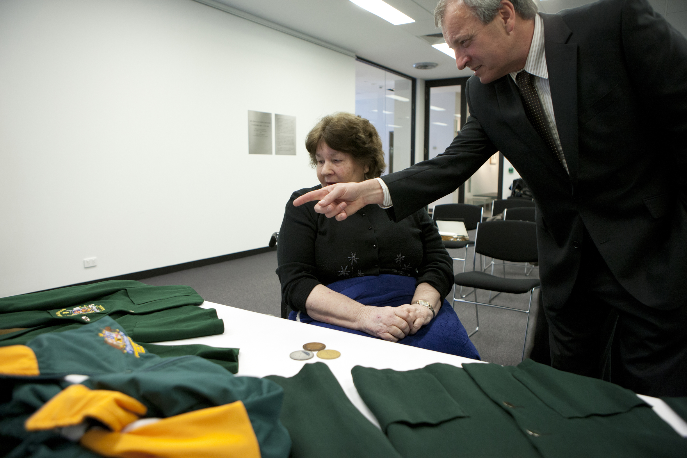 Australian Paralympic Committee President Greg Hartung and Australia's first female Paralympian, Daphne Hilton, view items on the occasion of the donation of historical items to the APC by Daphne Hilton